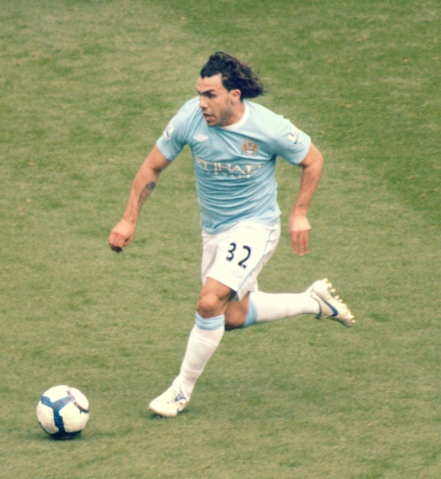 Carlos Tévez playing for Manchester City